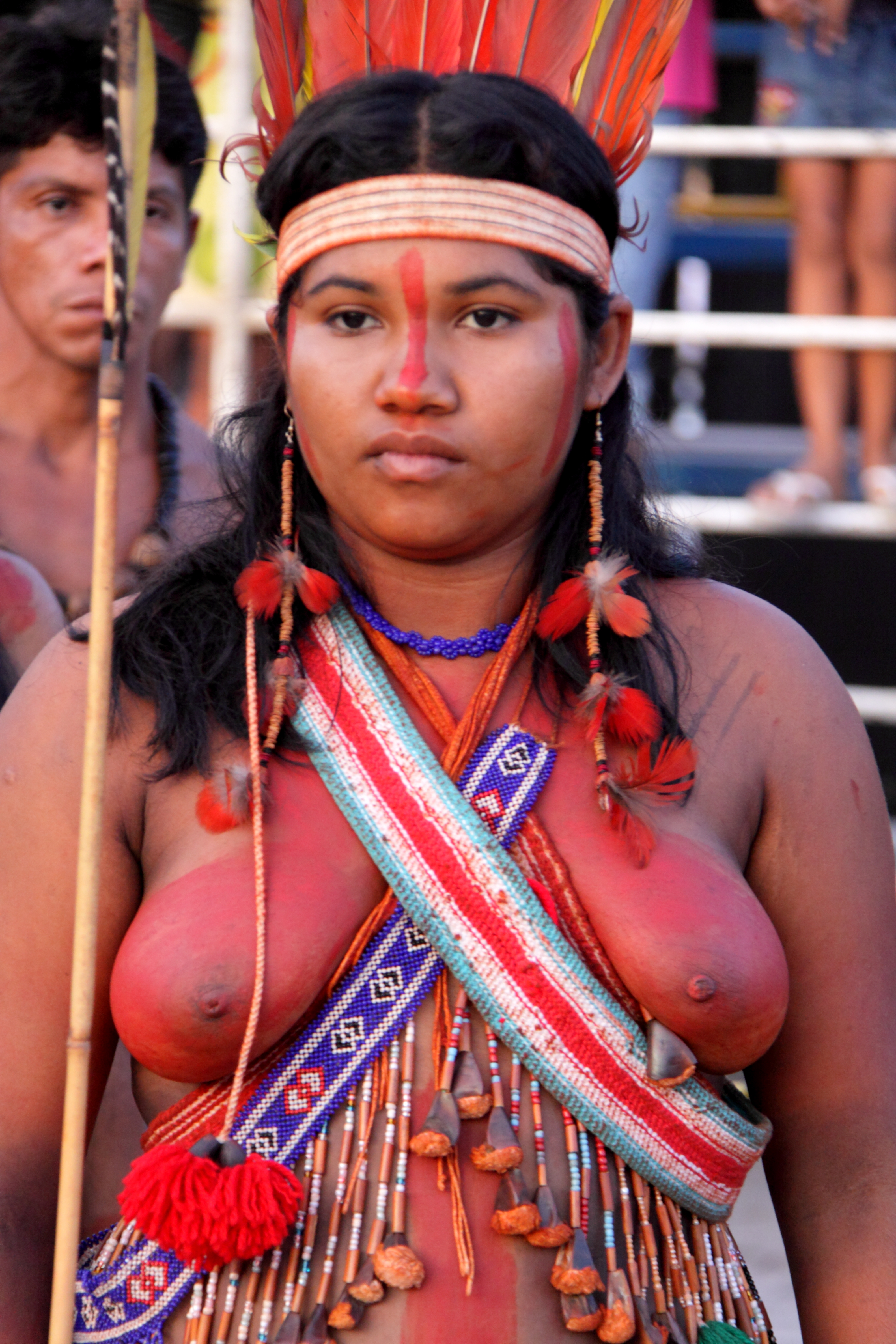 woman indian Gaviao from South america, Para province, Brasil